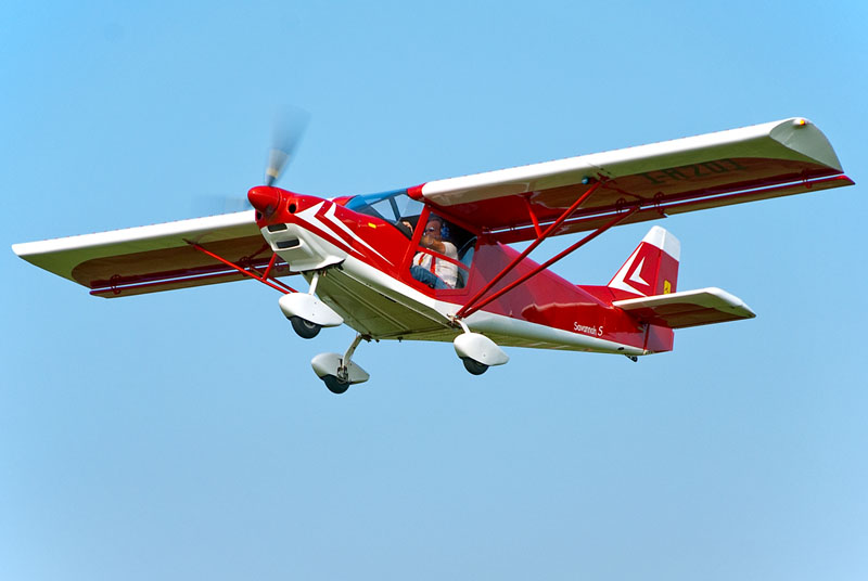 Ultralight Aircraft I.C.P. Savannah S in flight